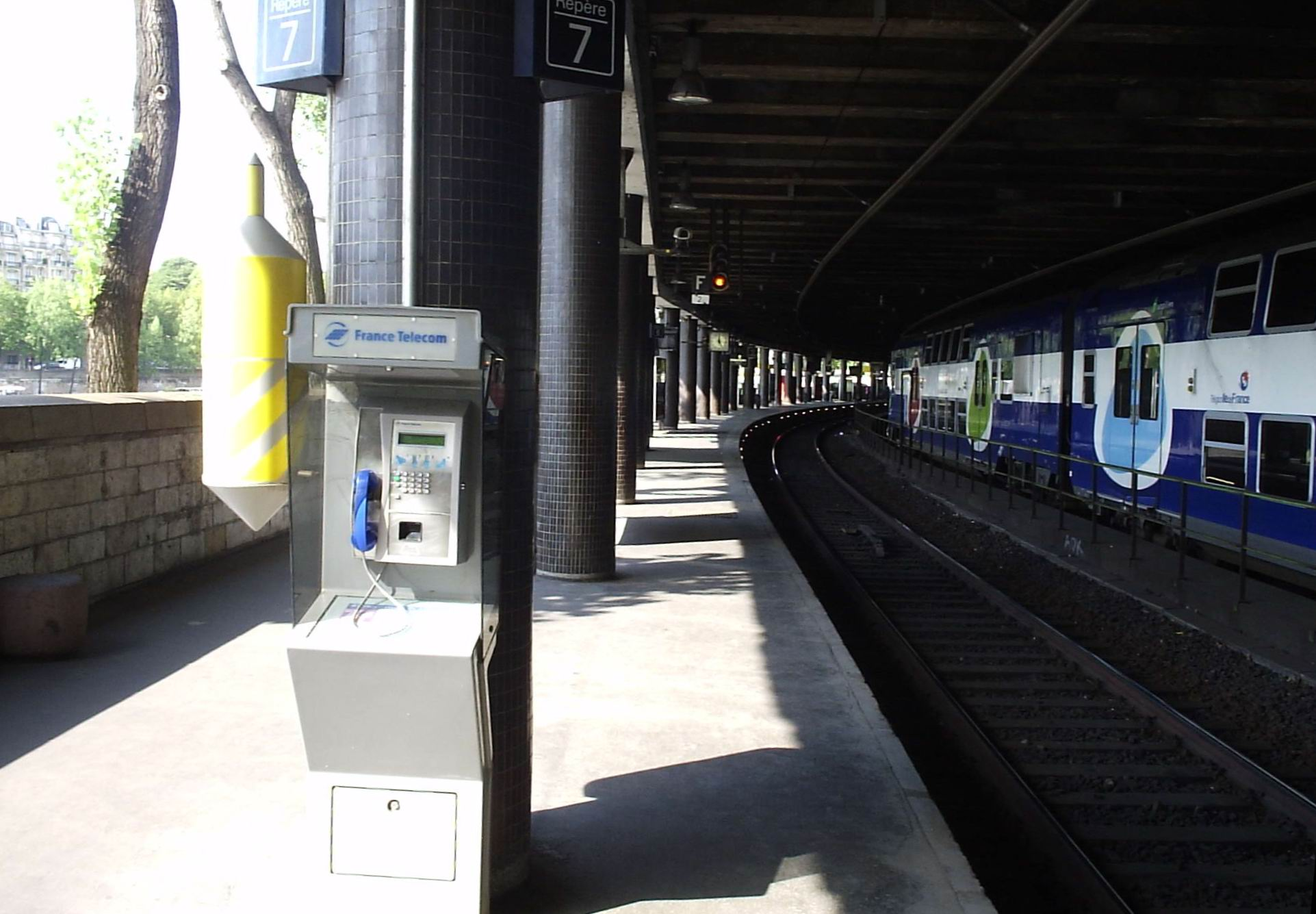 Description : station de RER Bir-Hakeim (Champ de Mars) à Paris Author:Sebb Date: 08/08/2006